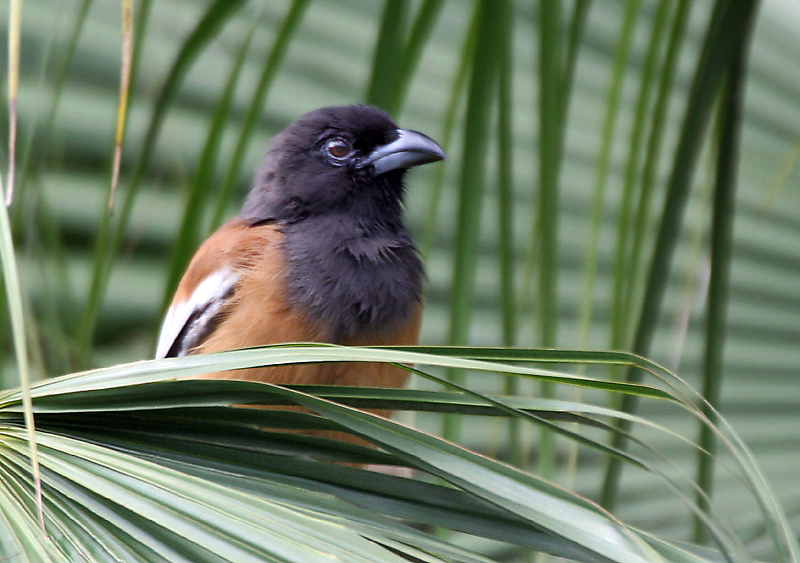 Roufous Treepie (Dendrocitta vagabunda) in Kolkata, West Bengal, India.